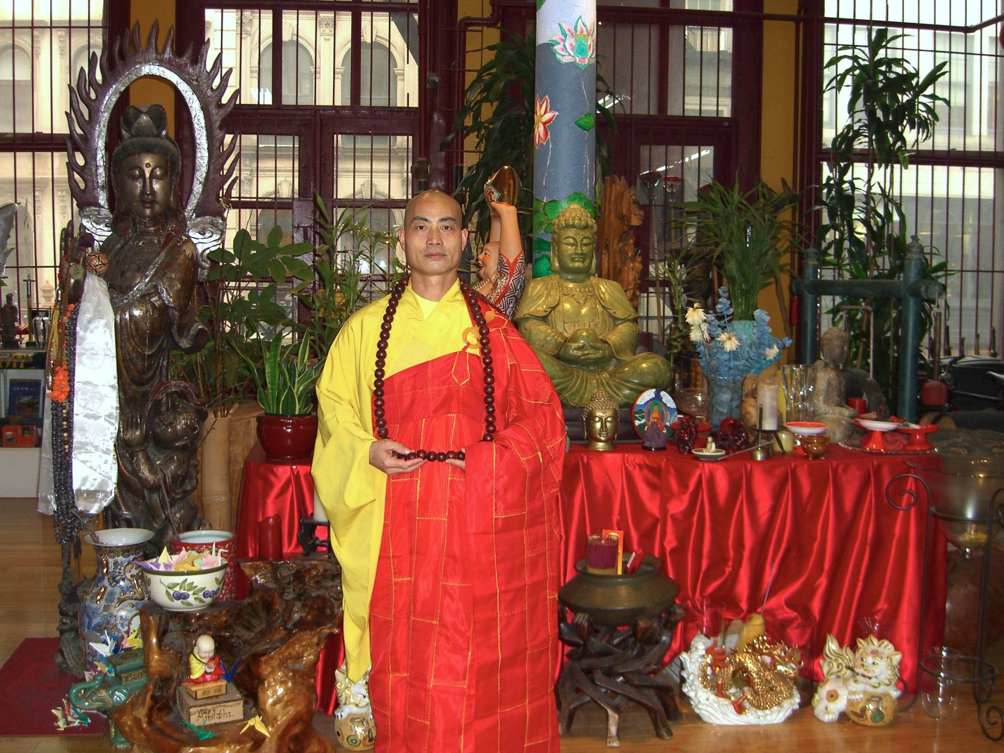 34th generation Shaolin warrior monk Shi Yan Ming, at the USA Shaolin Temple in Manhattan, November 4, 2010. Many thanks to Shifu Yan Ming and his staff. Photographed by Luigi Novi. This photo may be used, modified and published for any purpose, only if an easily visible credit to the photographer is placed near the photo in each instance in which it is used. (See licensing information below.) Publication of this photo without this proper attribution constitutes copyright infringement. For more information on my photos, you can contact me here.